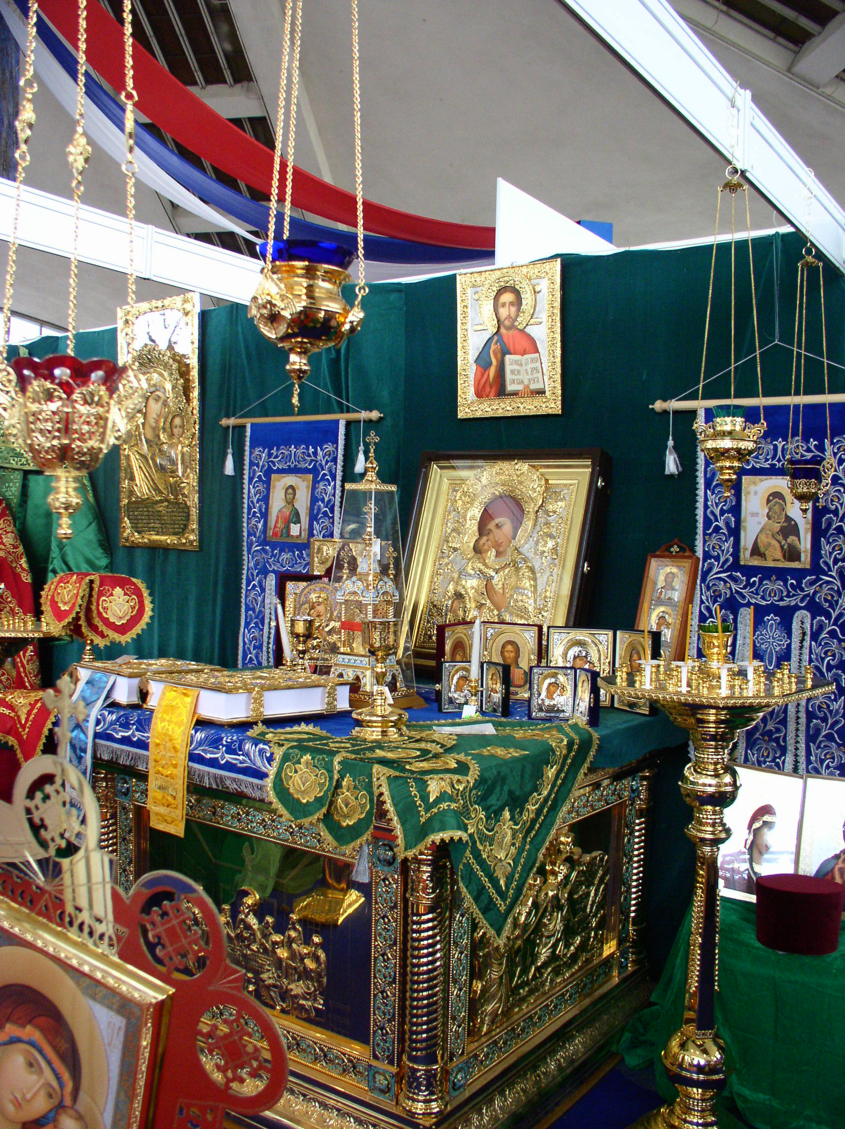 Russian Orthodox stuff. Russian national exhibition, Minsk, Belarus.